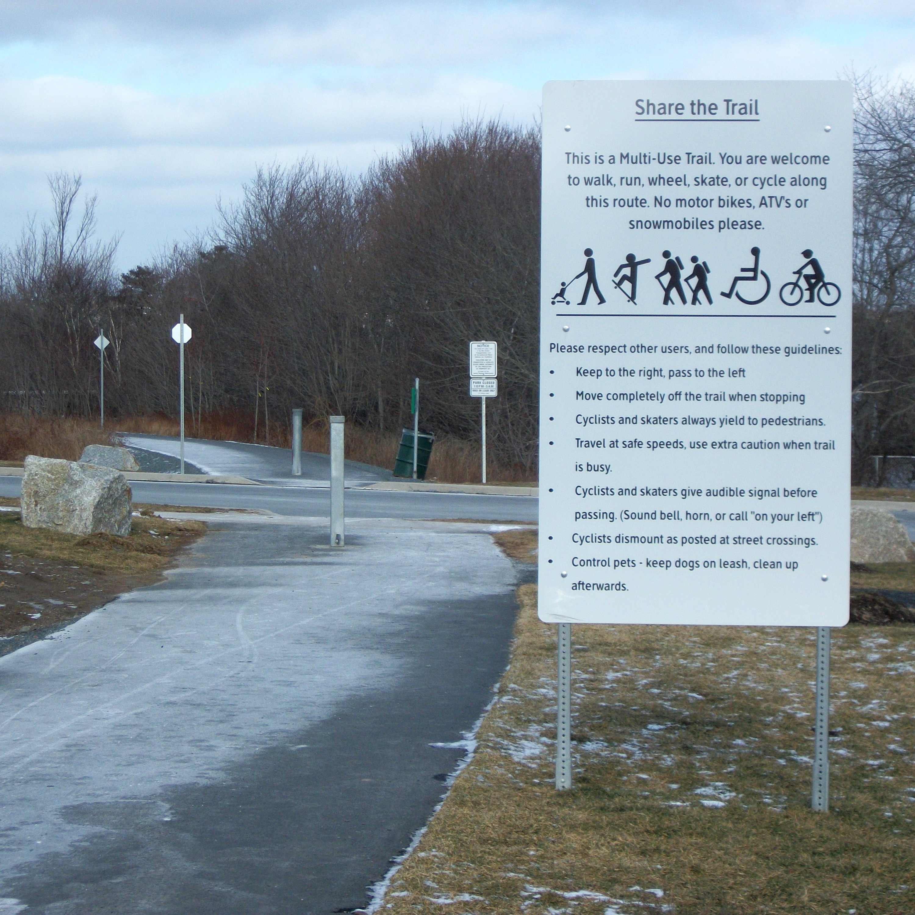 New Chain of Lakes multi use trail in Halifax Regional Municipality, Nova Scotia, Canada. The trail follows the rail bed of the former Chester Spur of the Canadian National Railways. Bollards and large stones have been placed at the road crossing to prevent use by motorized vehicles. Cyclists are qeduired to dismount when crossing the road. Note the location of the large sign which is placed too close to the "clear zone" for safety.